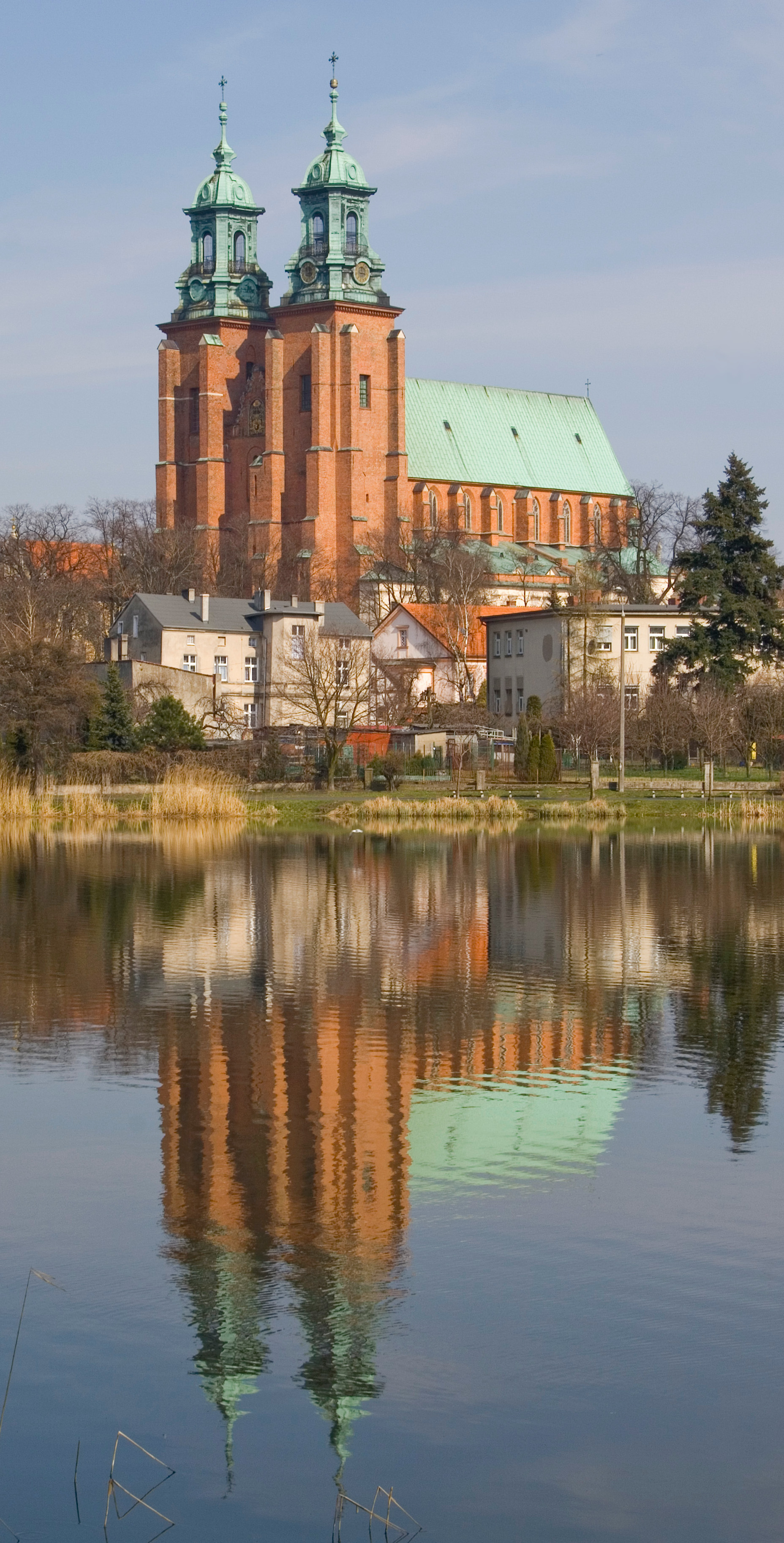 Exterior of the Gniezno Cathedral, Gniezno, Poland